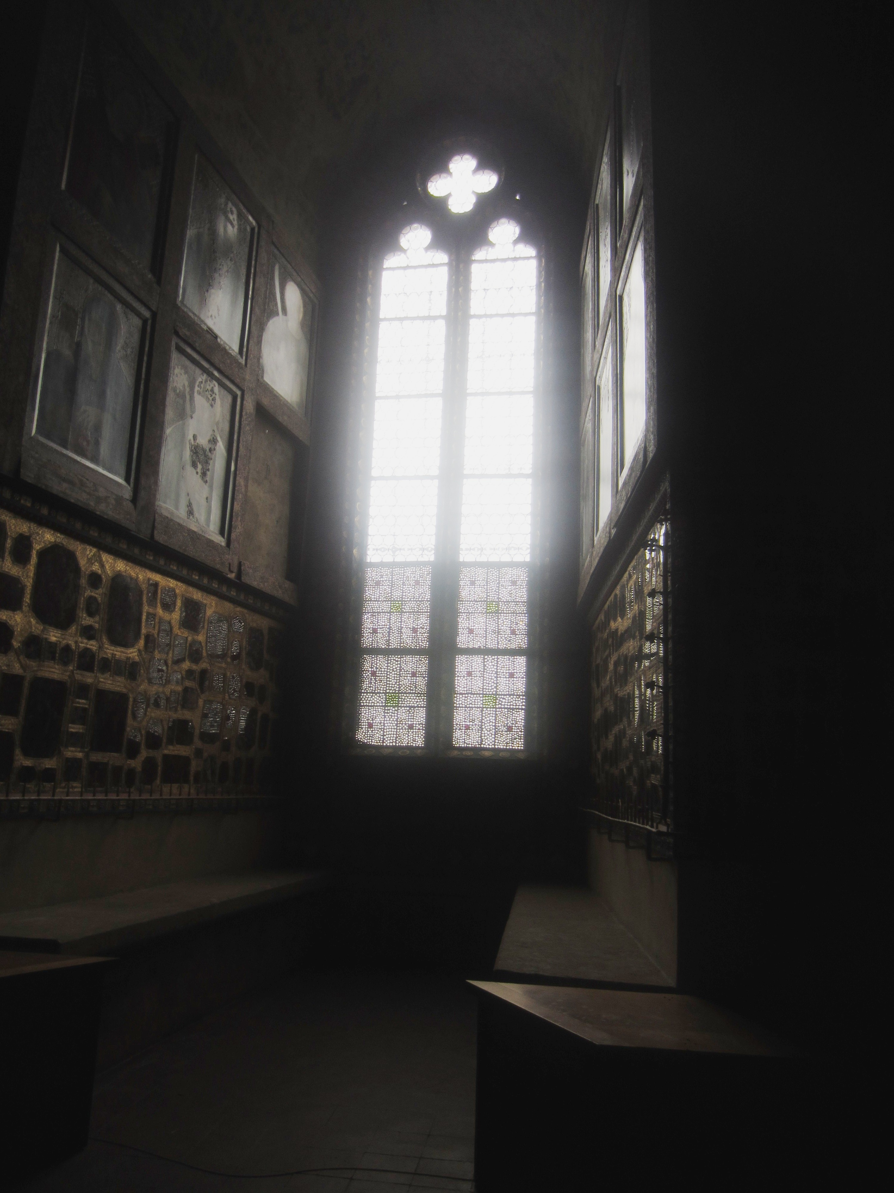 Chapel of the Holy Cross at Karlštejn Castle